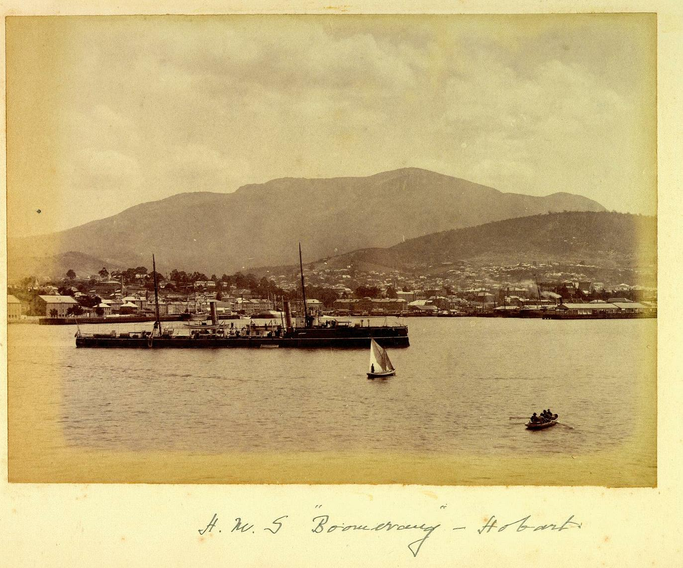 Photograph of British torpedo gunboat HMS Boomerang, at Hobart.